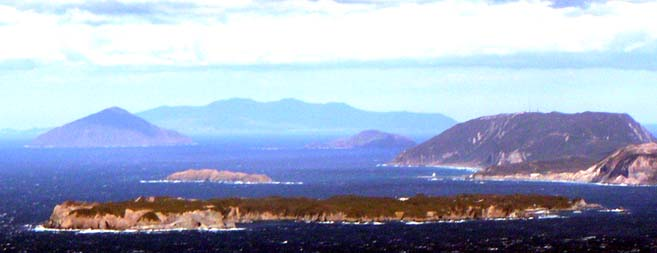 Looking the NNE from Kozushima in Izu Islands, Tokyo. Further island is Izu Oshima, left one is Toshima, right one is Niijima. Small one among them is Jinaishima.